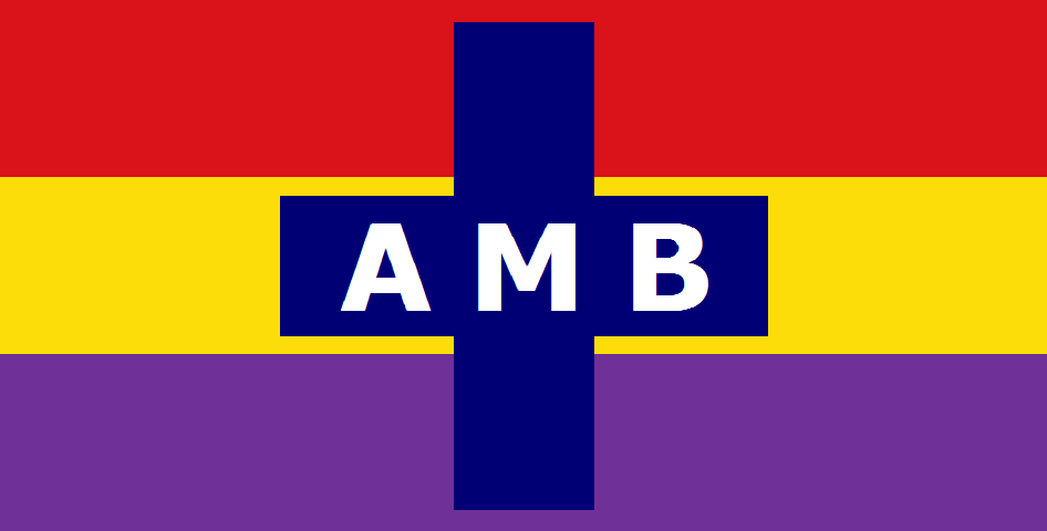 American Medical Bureau (AMB) armband